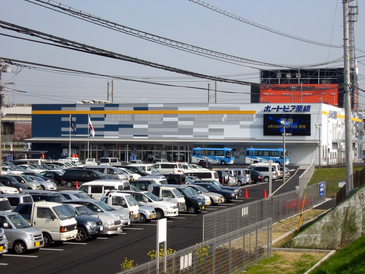 Boatpier Kurihashi in Kuki, Saitama Japan